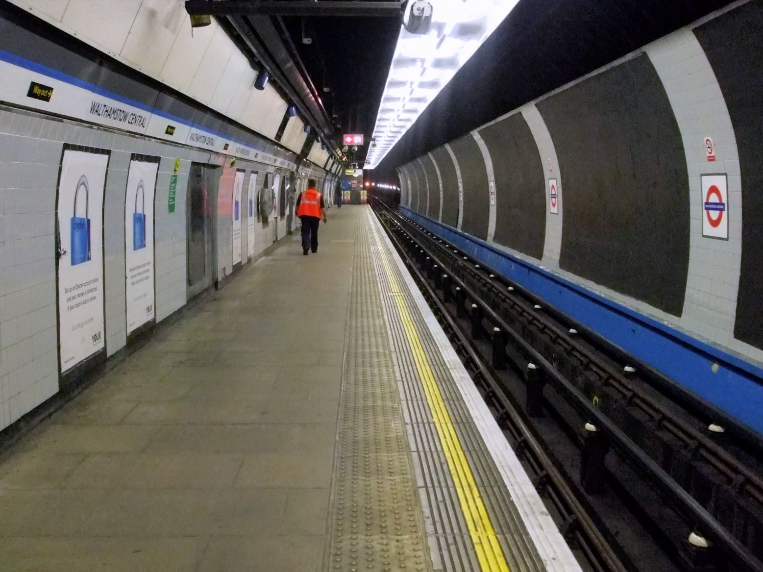 South Victoria line platform at Walthamstow Central station, looking north "to buffers". Once intended to continue onwards to Wood Street or even as far as South Woodford and Woodford, but this was cancelled before completion in 1968.